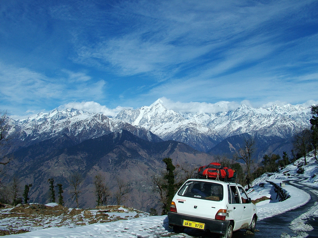 To Munsiyari on a Maruti, Uttarakhand.